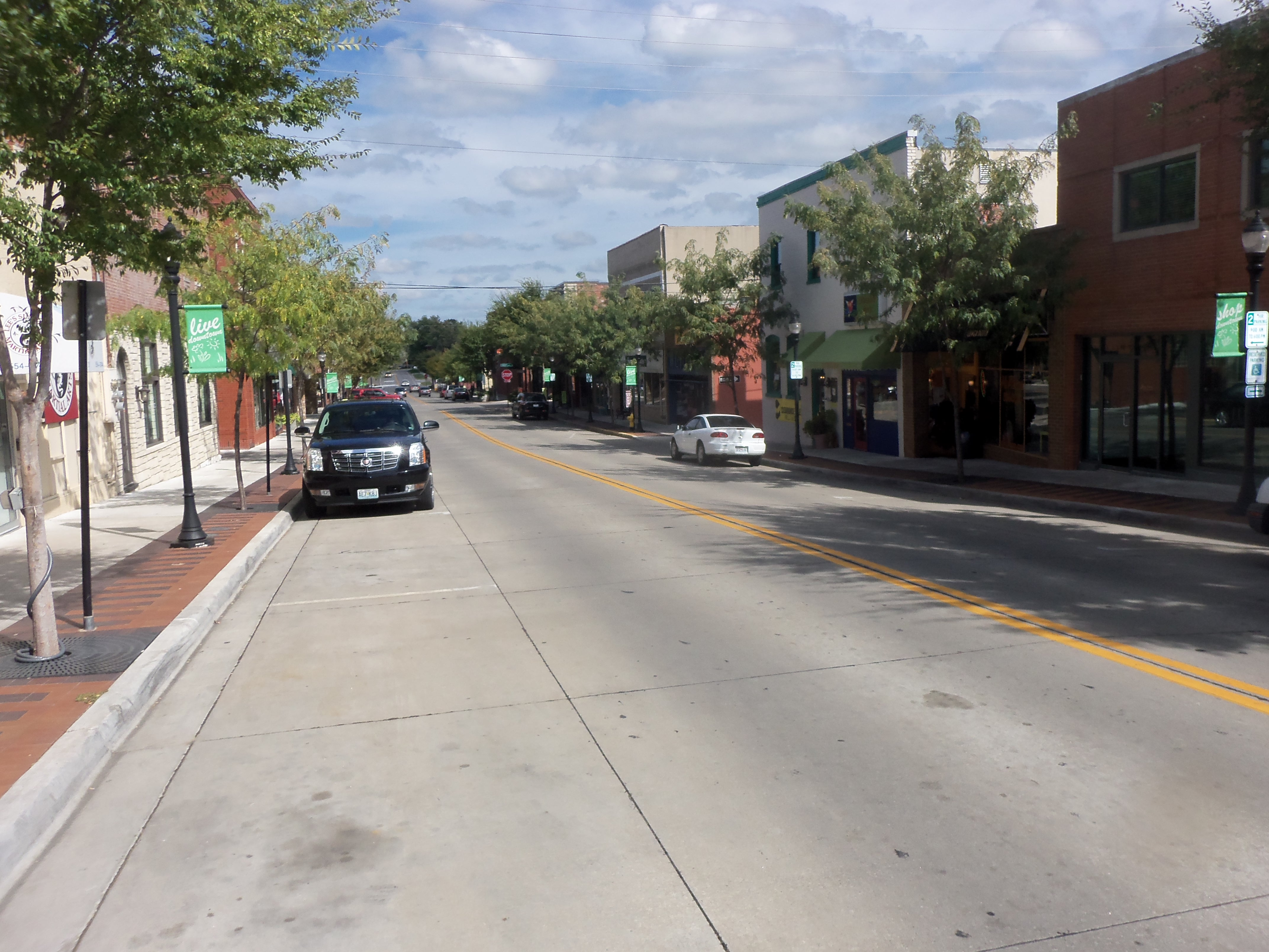 Lee's Summit Downtown Historic District